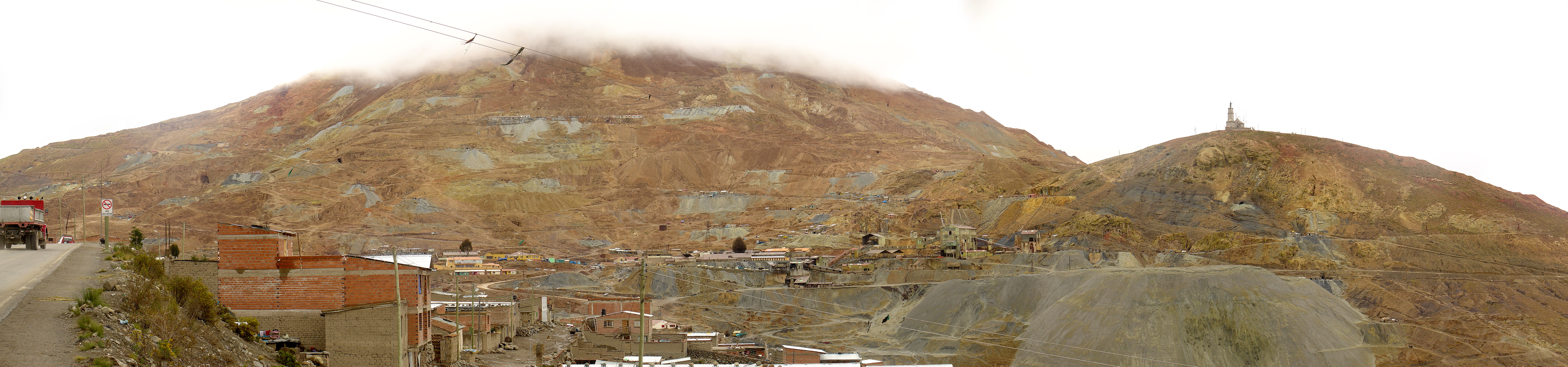 Please, have this description accessible to all by translating it in different languages.